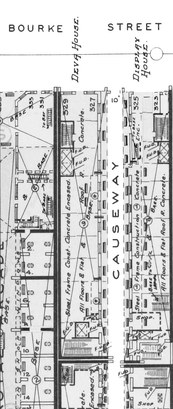 Ground Floor Plan, Scale 1:480, Malhstedt Fire Survey, 1948